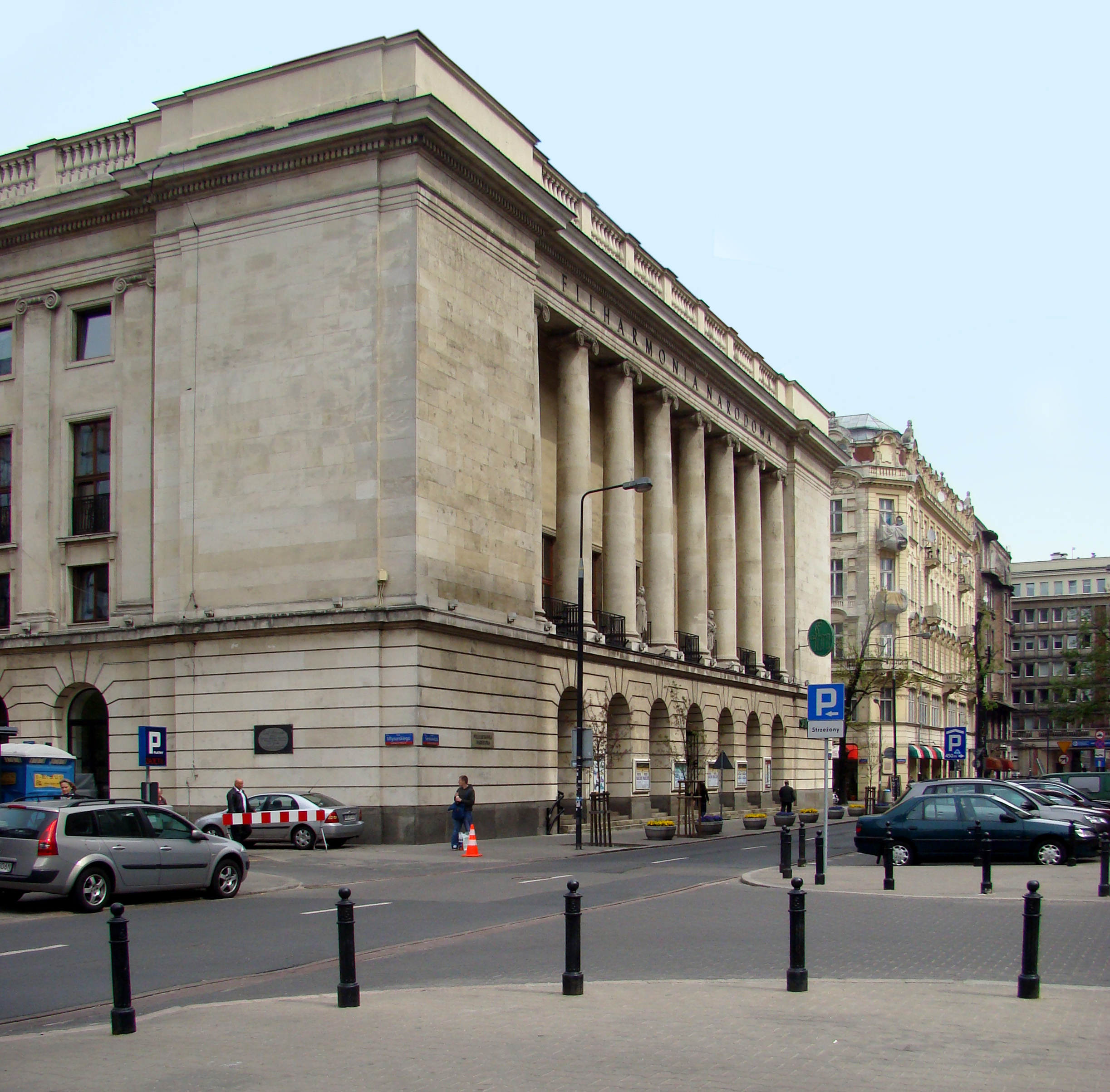 National Philharmonic Warsaw